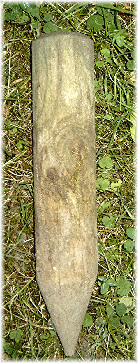 A wooden pole for gardening